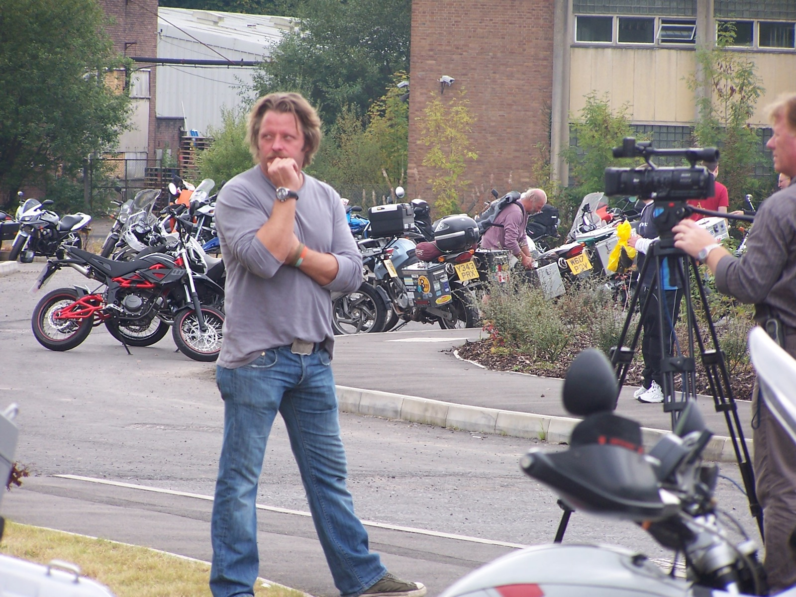 English adventurer Charley Boorman in Ynyscedwyn, Wales